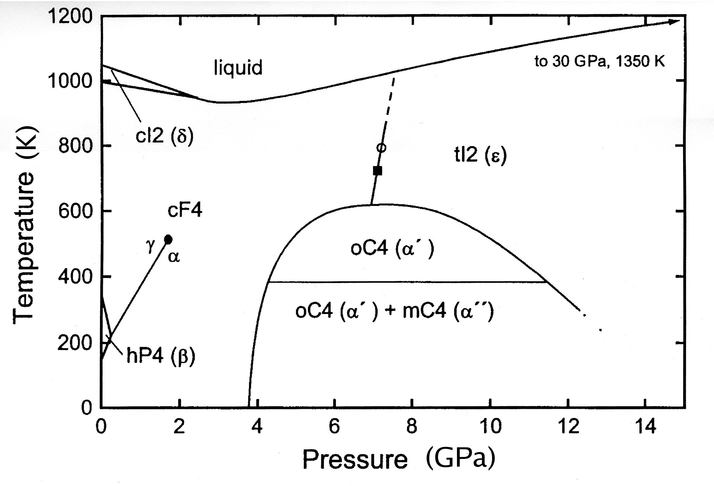 Phase diagram of cerium in english